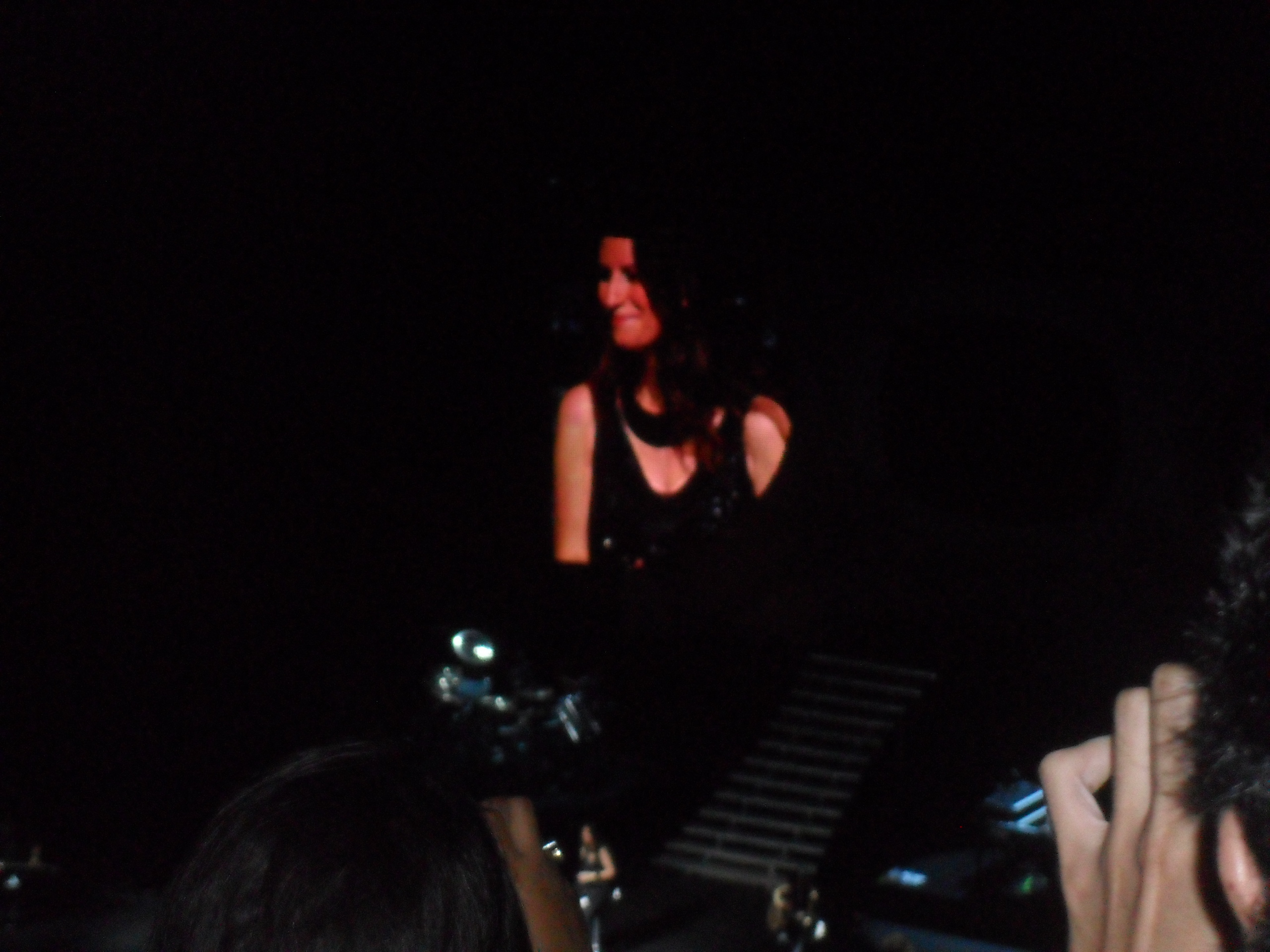 Singer Laura Pausini during a show.